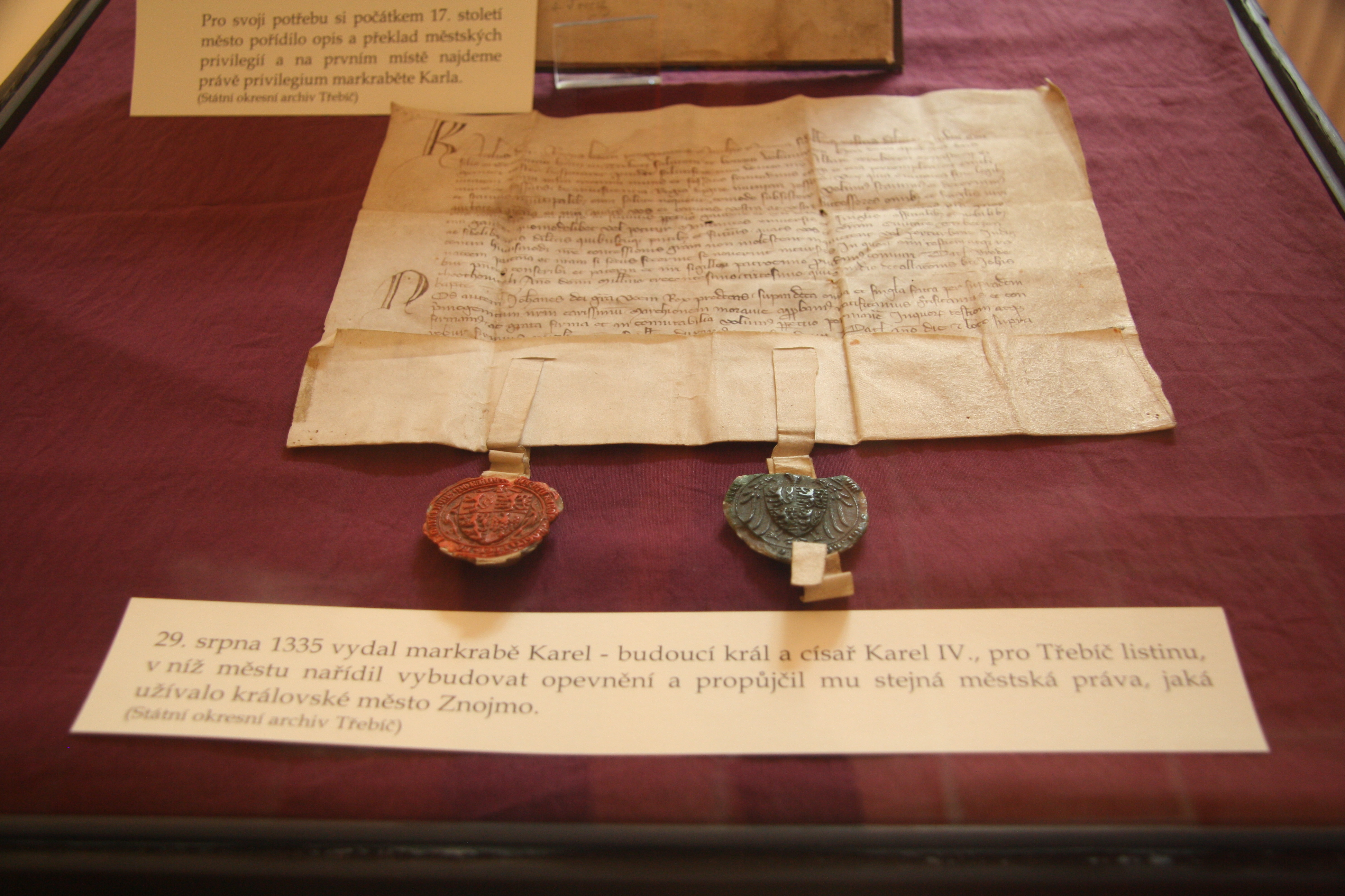 Privilegium of Charles IV with town rights in exhibition 680 let městských práv v Třebíči v dobových písemnostech in Muzeum Vysočiny Třebíč in Třebíč, Třebíč District.